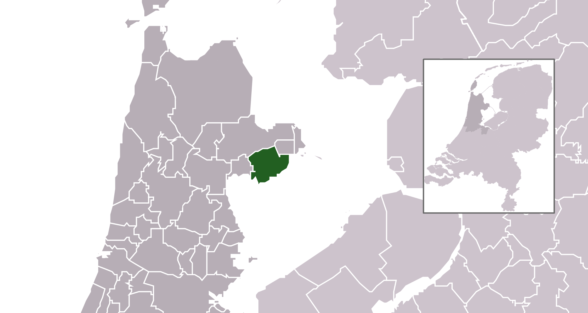 Location maps for the 441 municipalities in the Netherlands. Boundaries 1/1/2009 Automatically generated with script File name contains "Municipality code" (CBS-code) as specified in: [1] Created in svg using coordinate data derived from ESRI data published by Centraal Bureau voor de Statistiek, Voorburg/Heerlen. ([2]) Color coding and original design (slightly adpated by me) by user Mtcv (2006/2007) ([3]) Updated until January 1, 2014 The copyright holder of this file, Centraal Bureau voor de Statistiek, allows anyone to use it for any purpose, provided that the copyright holder is properly attributed. Redistribution, derivative work, commercial use, and all other use is permitted. Attribution: Centraal Bureau voor de Statistiek This work is free and may be used by anyone for any purpose. If you wish to use this content, you do not need to request permission as long as you follow any licensing requirements mentioned on this page.